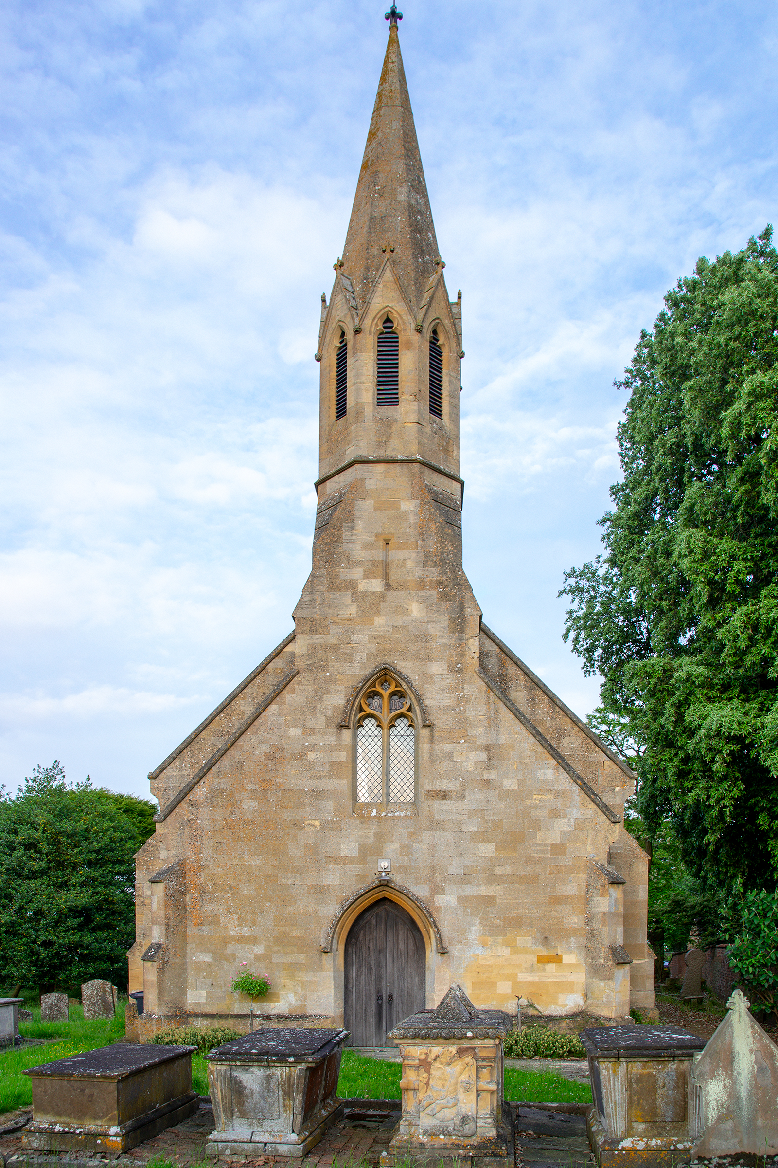 St. Peter's with some old tombs